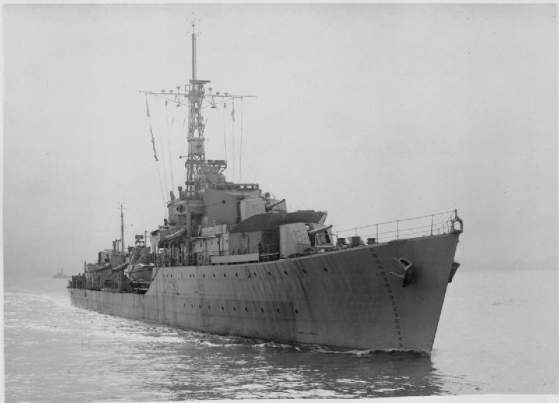 HMS Zealous Underway on the Mersey.